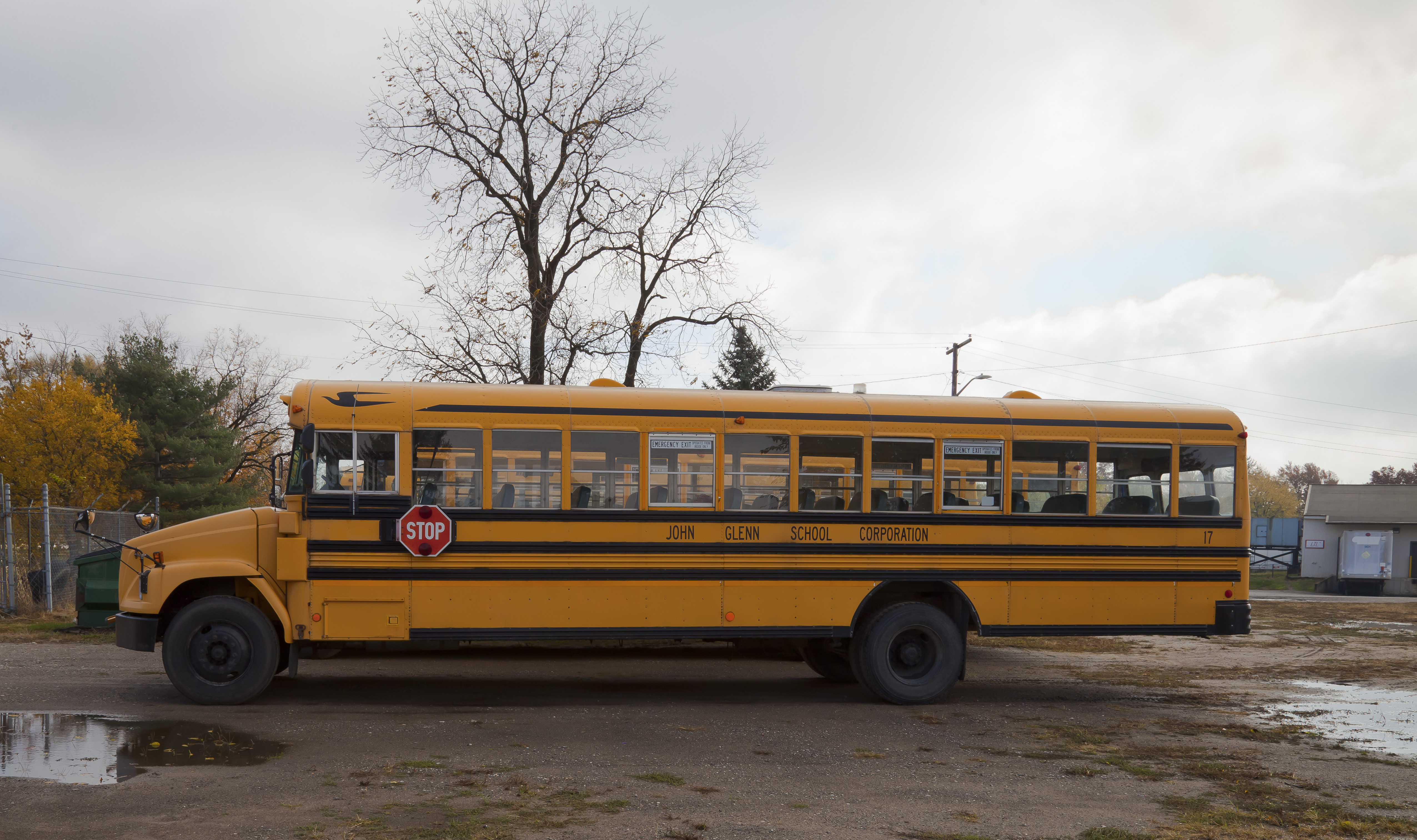 School bus, Walker, Indiana, USA